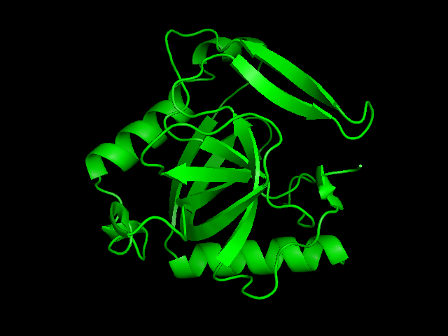 Crystal structure of soluble inorganic pyrophosphatase (PF00719) isolated from Thermococcus litoralis, PDB: 2PRD​.